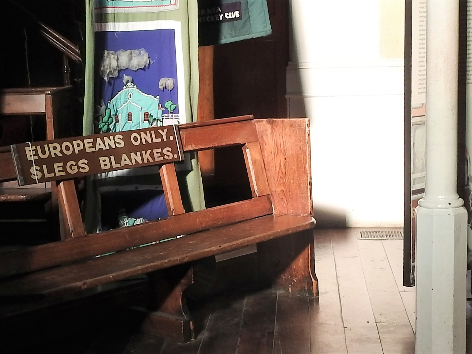 Looking south in back part of main room